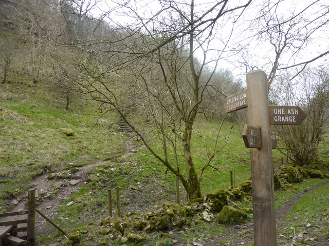 Footpaths meet in Cales Dale Behind is Lathkill Dale, left and right the Limestone Way,very popular walking country.